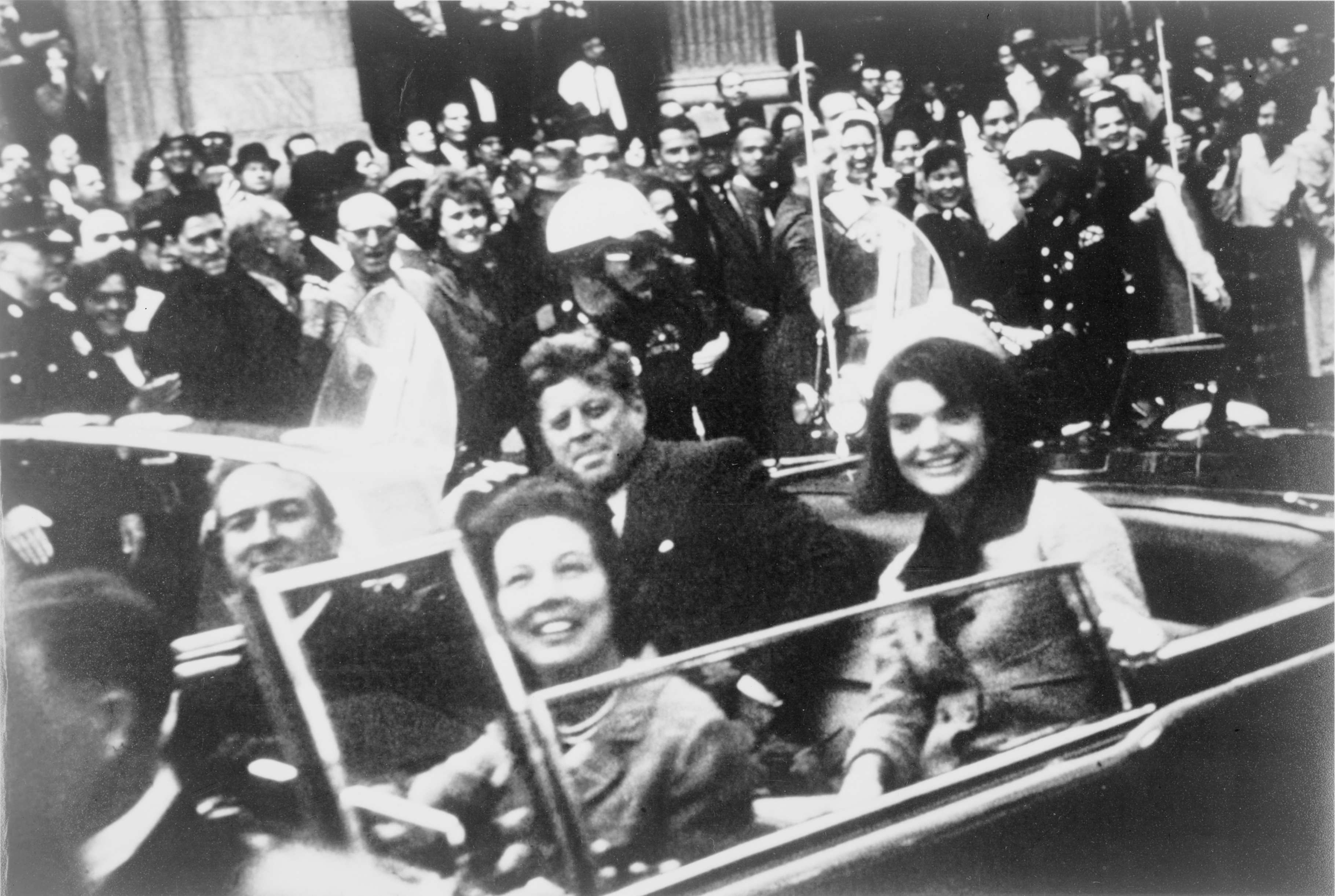 President John F. Kennedy motorcade, Dallas, Texas, Friday, November 22, 1963. Also in the presidential limousine are Jackie Kennedy, Texas Governor John Connally and his wife, Nellie.